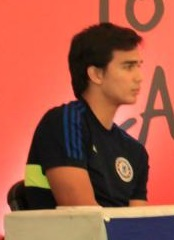 James Younghusband participating in the launch of the "Red Card to Child Labor" campaign in the Philippines led by the International Labour Organization.